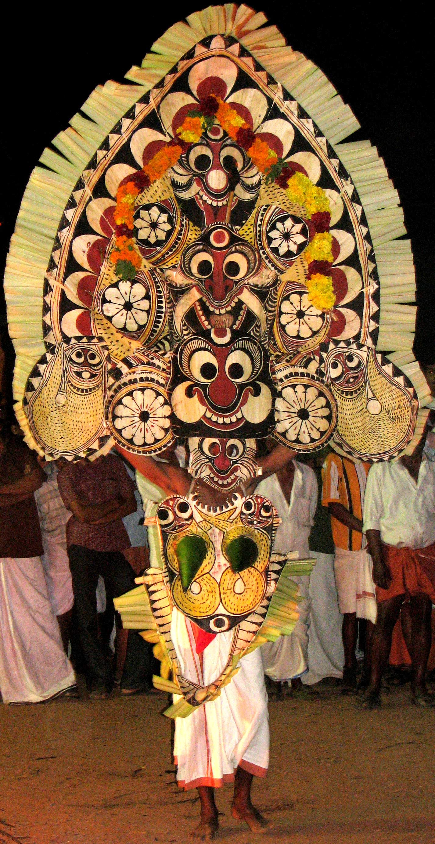 Padayani at Kottangal Devi Temple. Bhairavi kolam using 16 Areca palm leaf performing